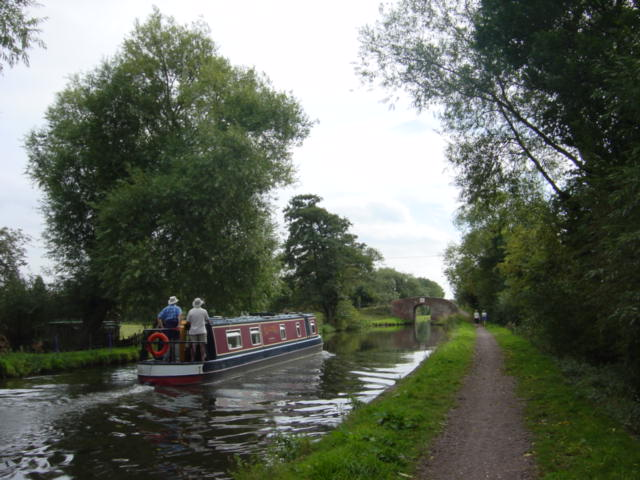 Narrow Boat on Trent-Mersey canal. Narrow boat approaching bridge having left Tatenhill lock on the Trent-Mersey canal. The Way for the Millennium runs along the towpath.